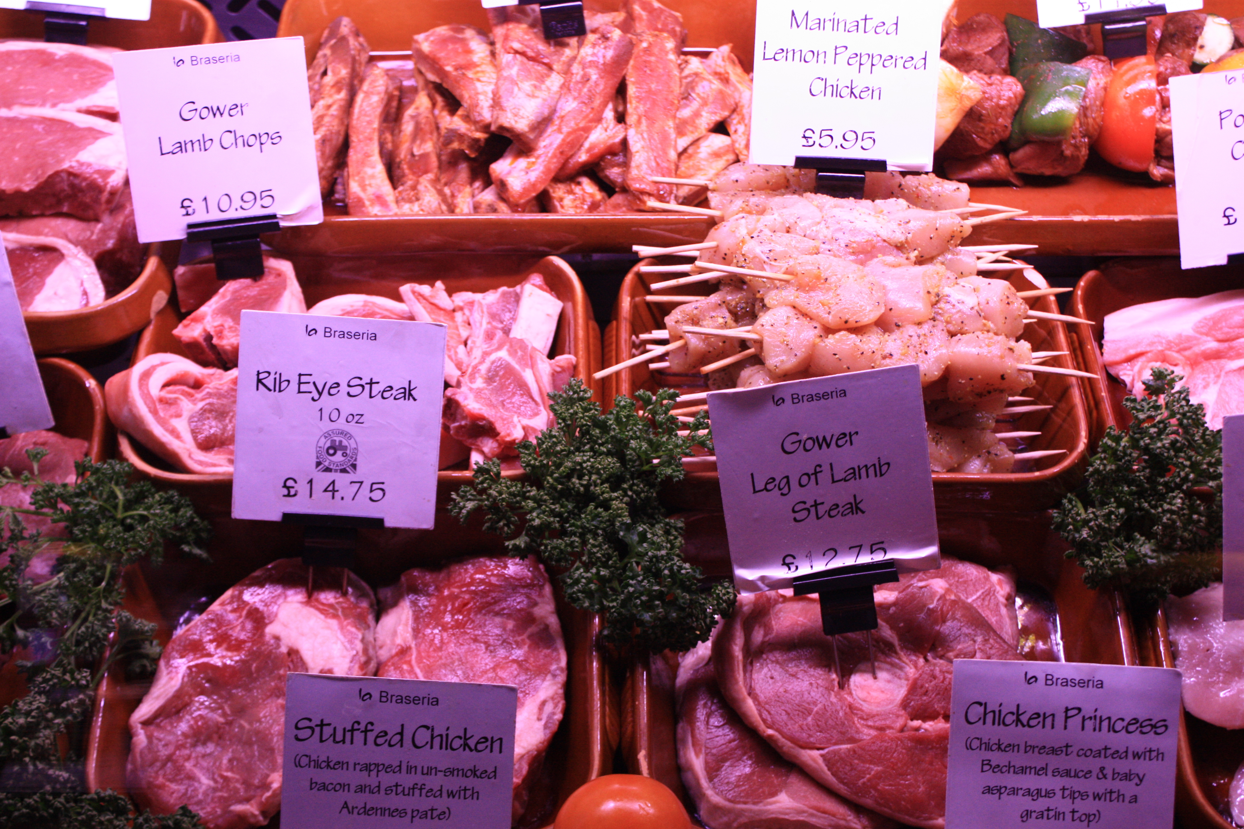 Gower meat selection at La Braseria restaurant, Swansea, Wales,in 2010